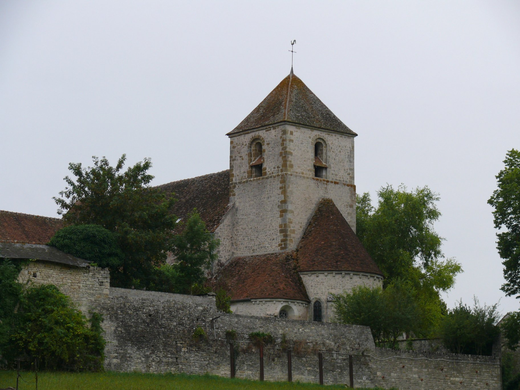 Saint-Brigide's church of Yèvre-la-Ville (Loiret, Centre, France).